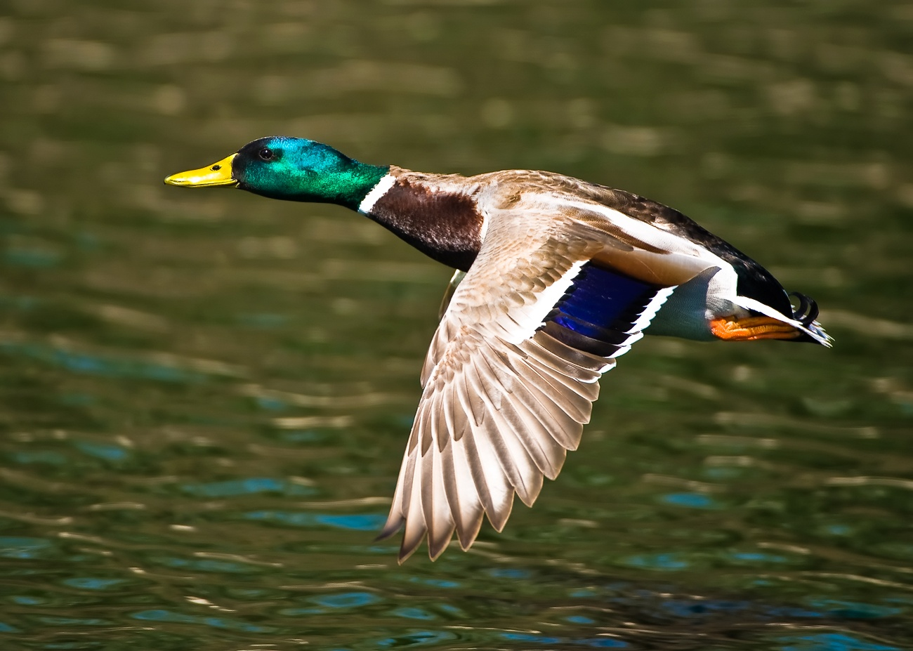 Mallard. Volgograd Region.